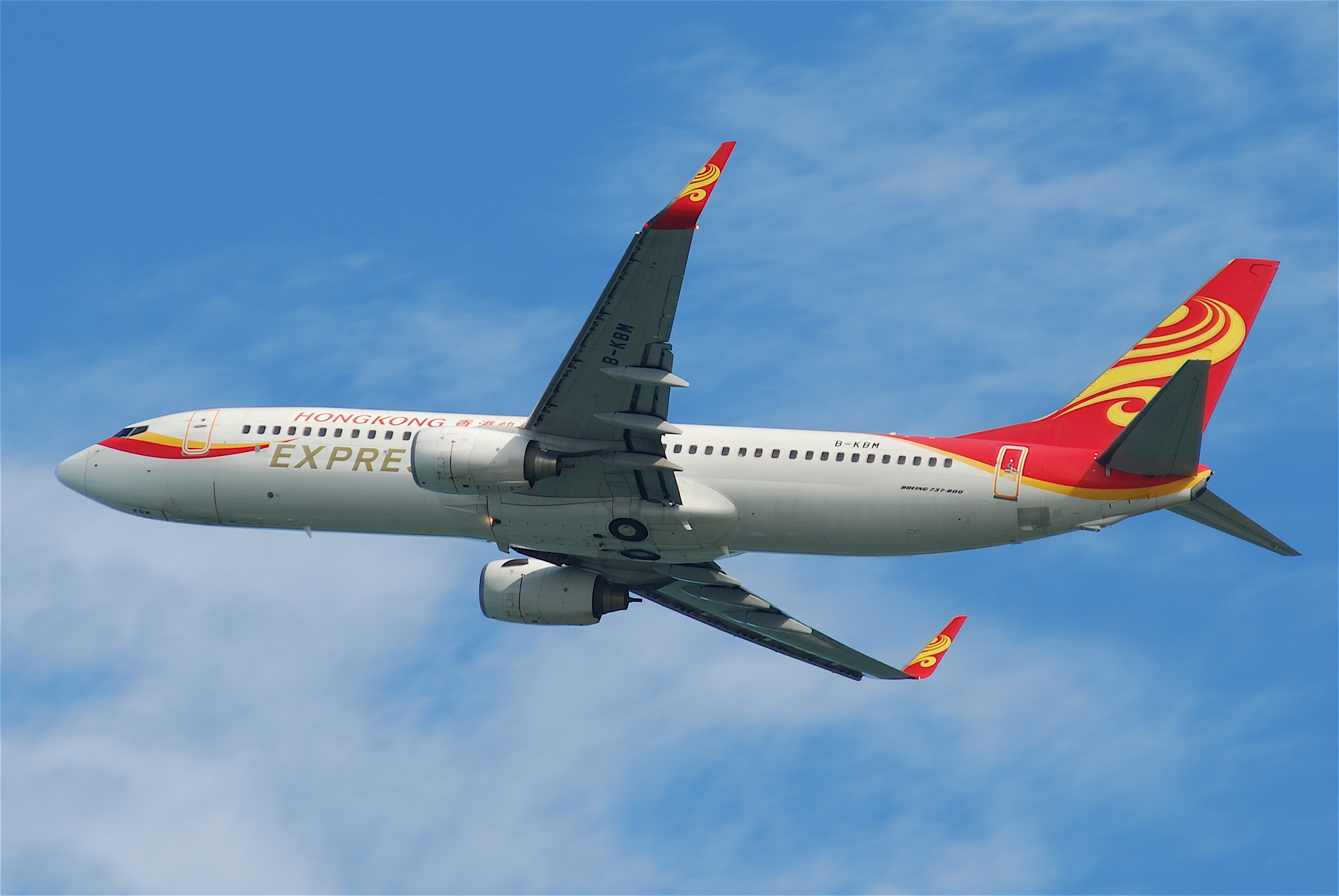 HongKong Express Boeing 737-800; B-KBM@HKG;31.07.2011/614ts